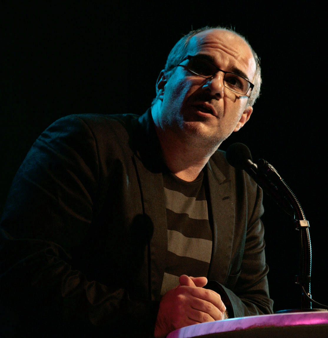 Actor, comedian and writer Michael Niavarani reading from 'Vater Morgana' (literary evening "Rund um die Burg" 2009 near the Burgtheater in Vienna).